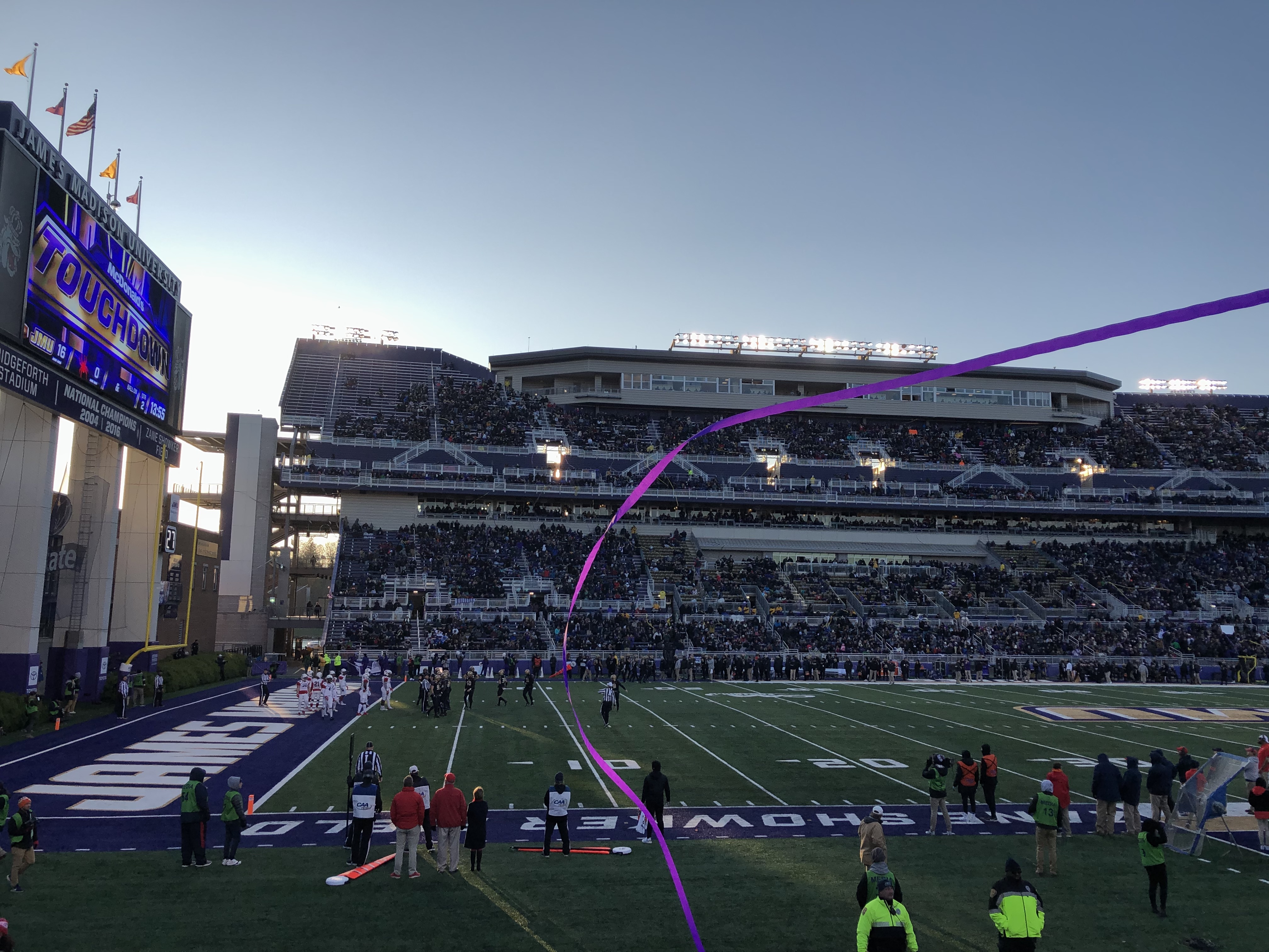 JMUvsRichmond2019